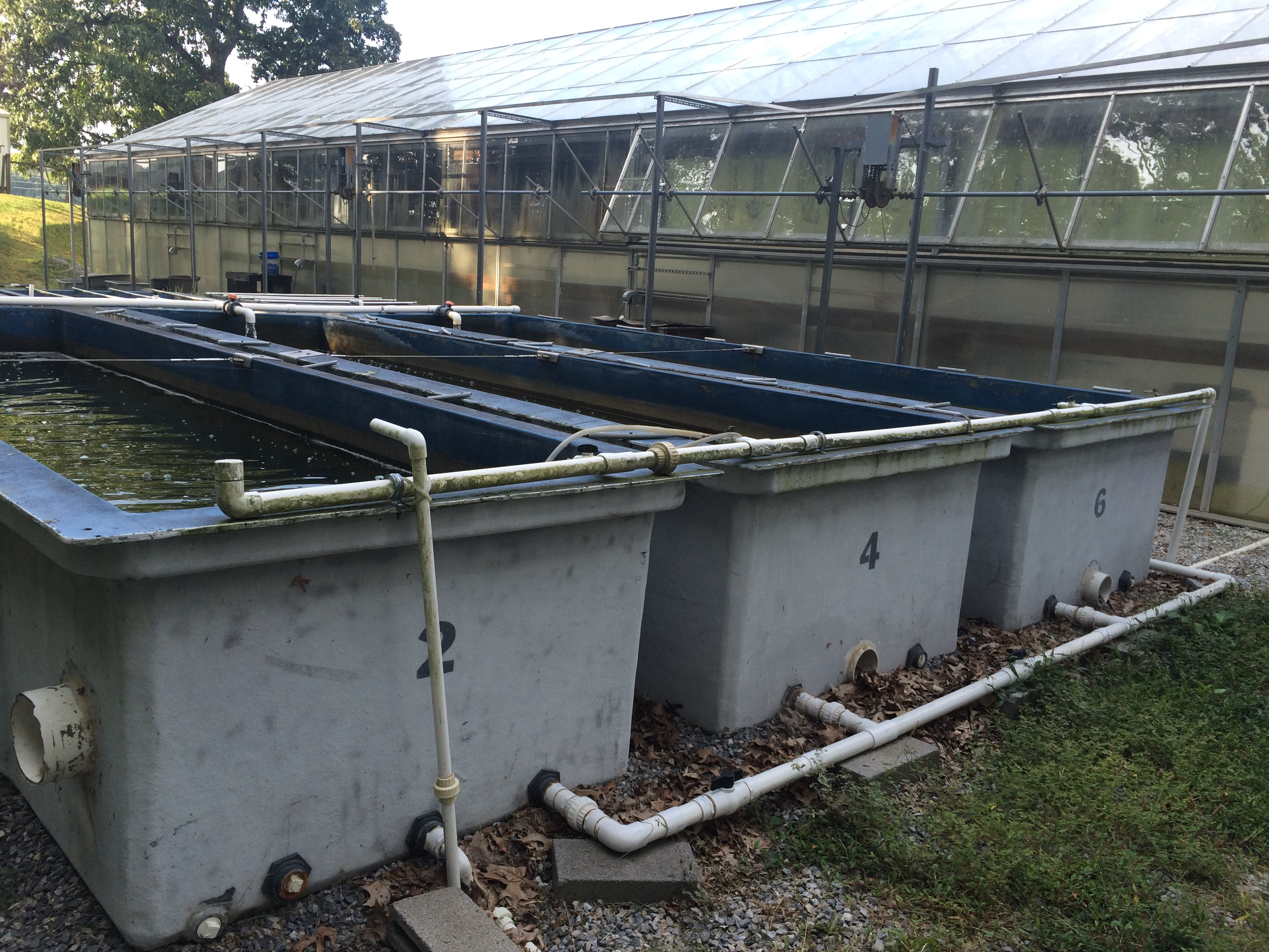 Recirculating Aquaculture System.